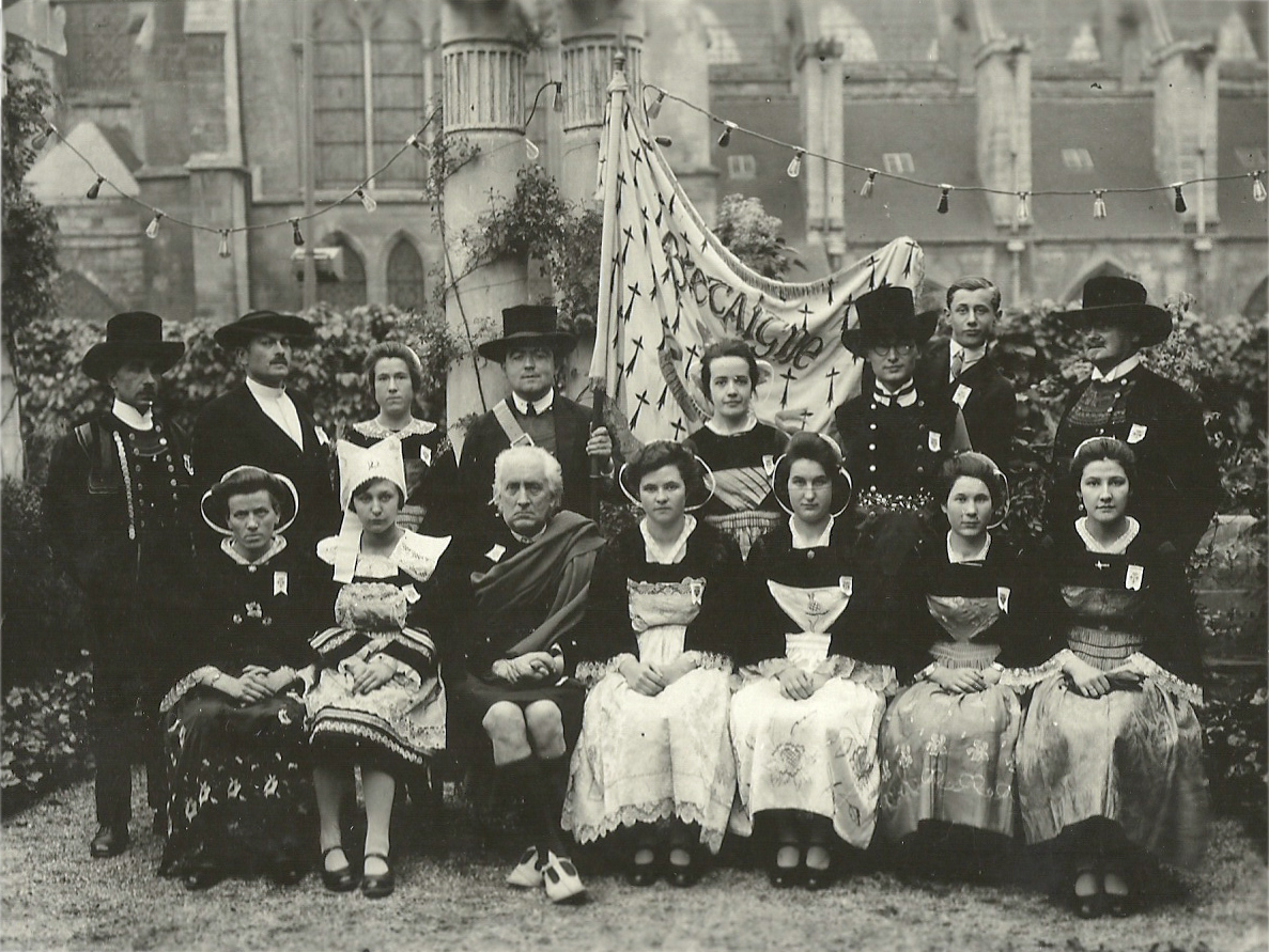 Korollerien-Breiz-Izel in Compiègne : Yann Fouéré standing , third on the right – his sister Héliette Fouéré, seated second from left, with Lord Ashbourne in kilt beside her.